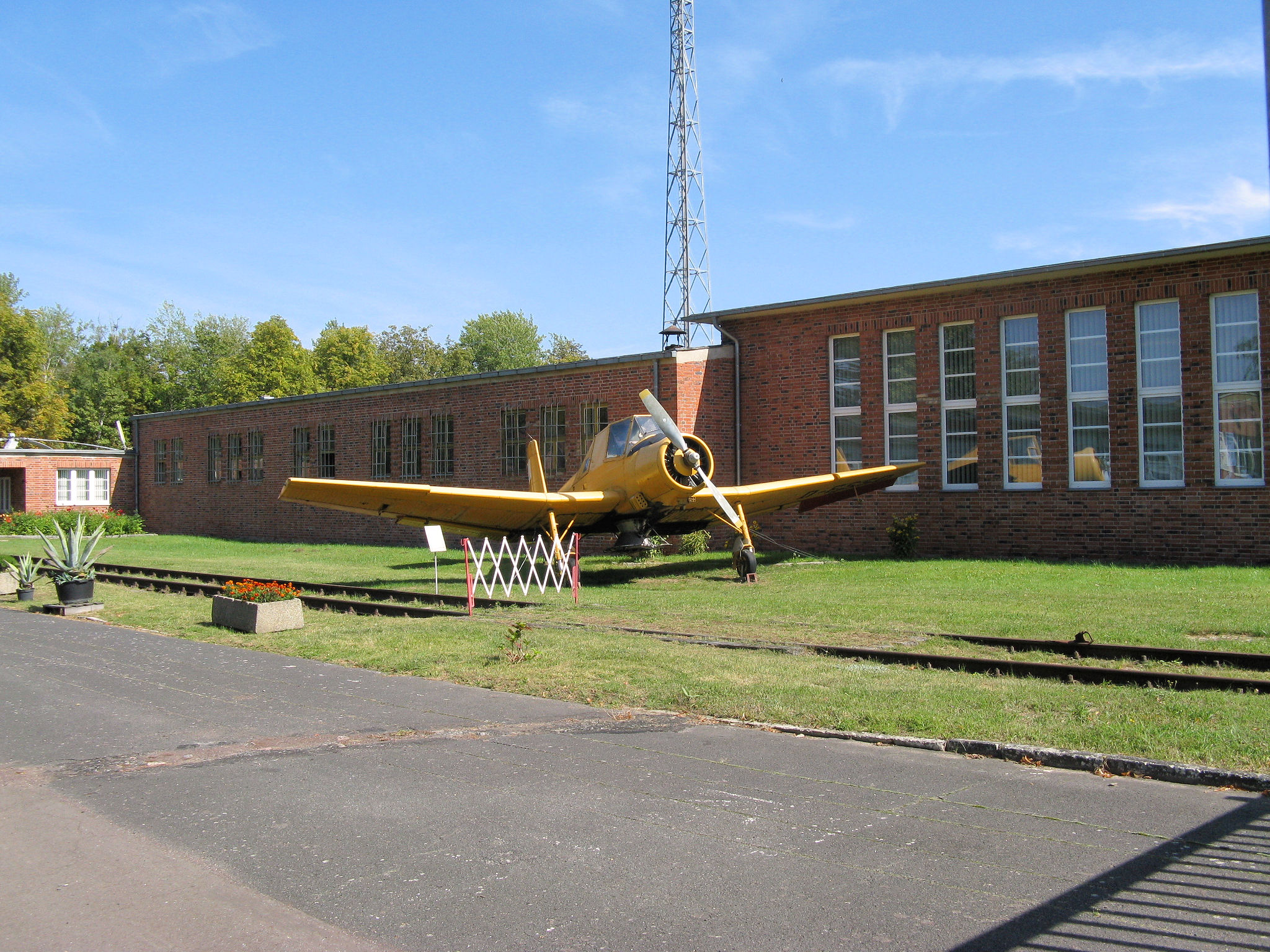 Luftfahrttechnisches Museum in Rechlin Nord, disctrict Müritz, Mecklenburg-Vorpommern, Germany